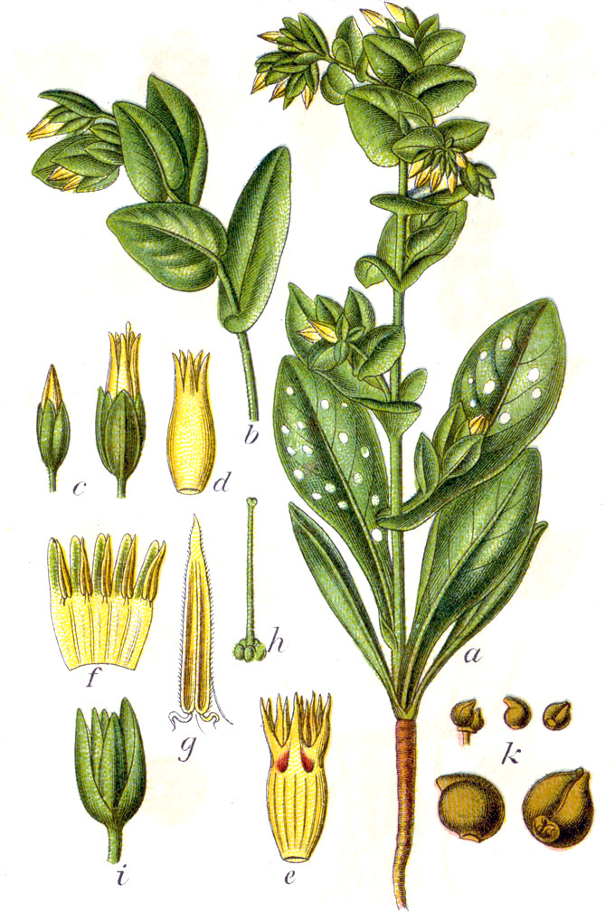 Cerinthe minor L. Original Caption Kleine Wachsblume, Cerinthe minor